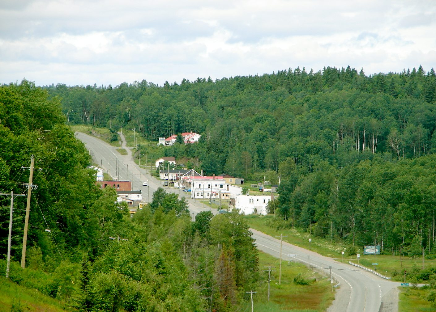 Kearns and Highway 66 (McGarry township), Ontario, Canada